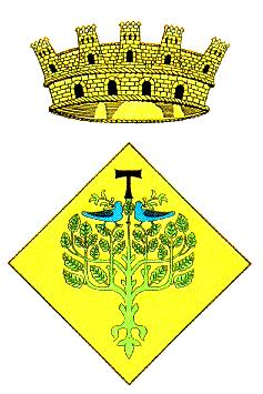 La selva del Camp shield